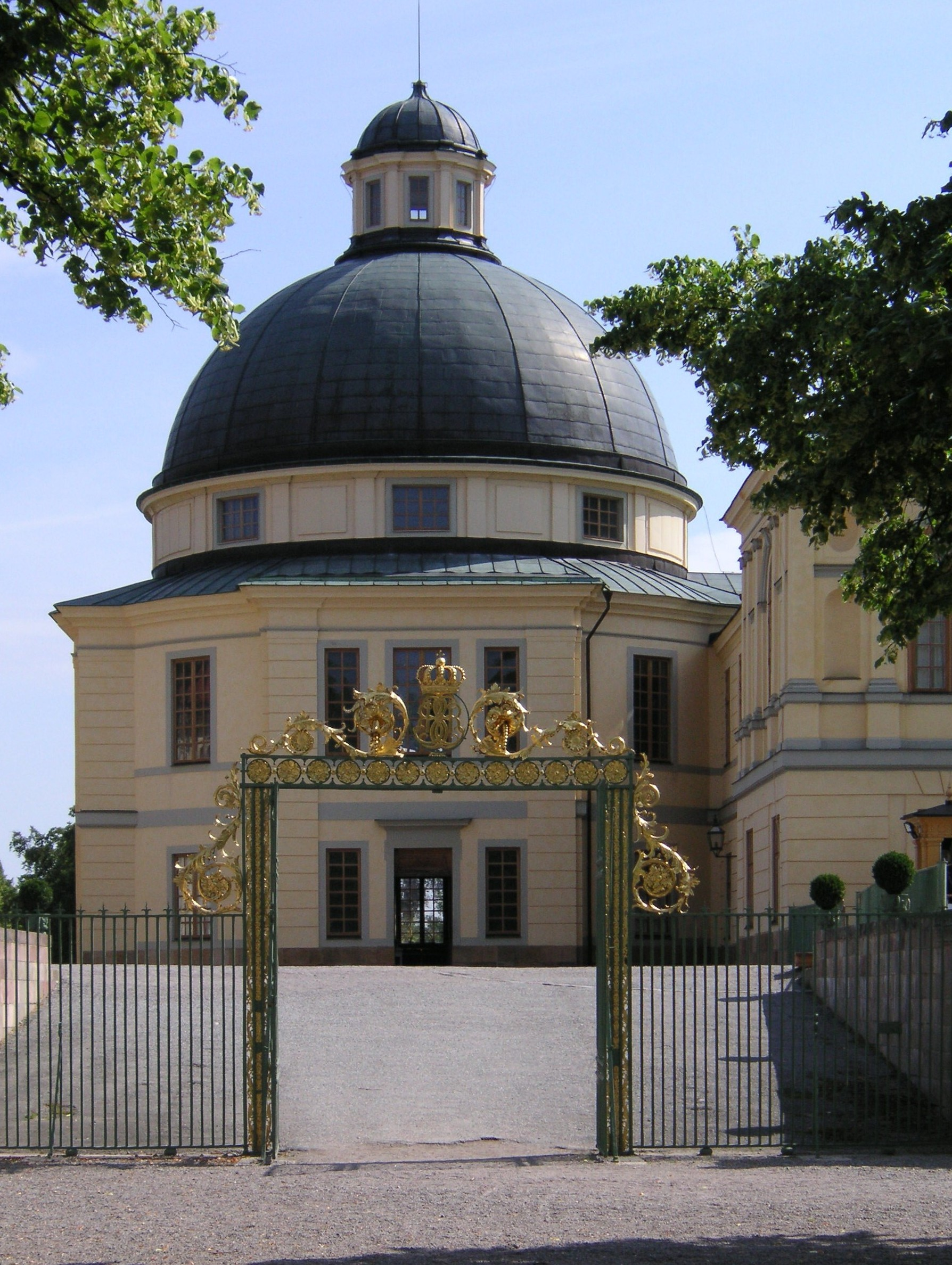 Drottningholm Palace Church